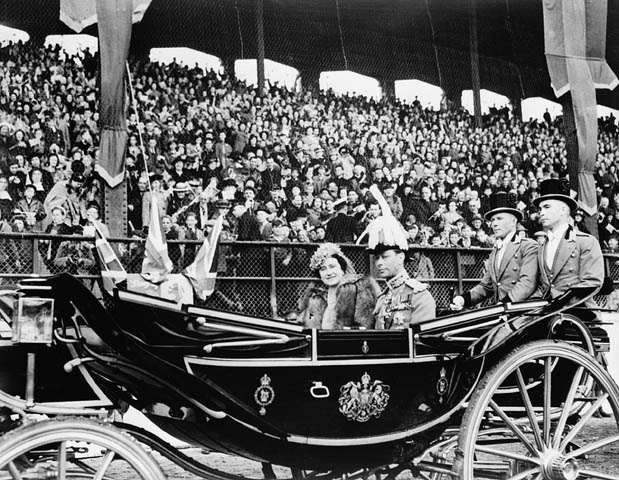 Arrival of Their Majesties King George VI and Queen Elizabeth, in the State carriage, in front of grandstand at Lansdowne Park, Ottawa, Canada